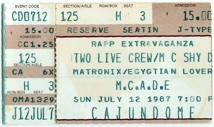 A concert ticket for the Rapp Extravaganza hip-hop performance at the Cajundome in Lafayette, Louisiana on July 12, 1987. The concert featured 2 Live Crew, MC Shy D, Mantronix, Egyptian Lover and MC A.D.E..